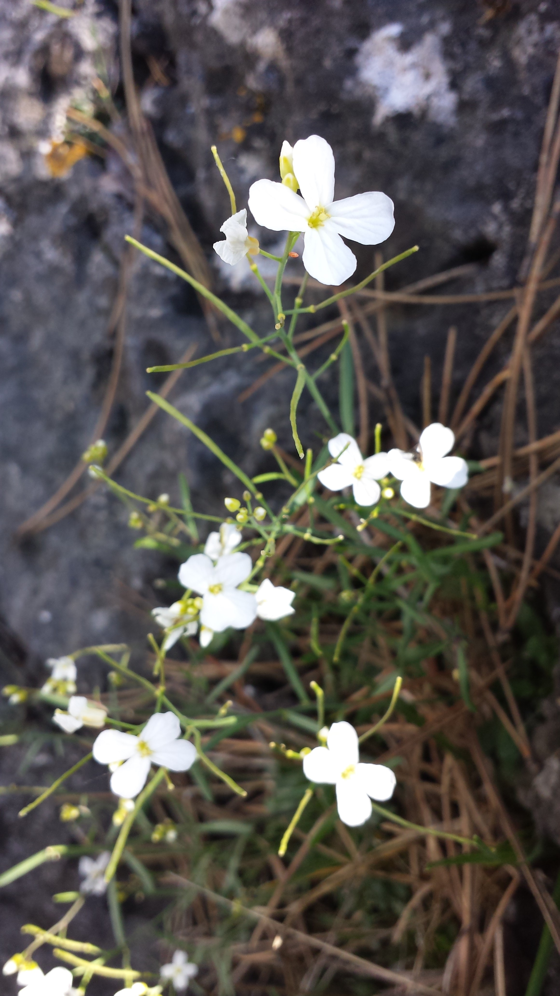 Habitus Taxon: Arabidopsis petraea (sensu Fischer et al. EfÖLS 2008 ISBN 978-3-85474-187-9; det. M. A. Fischer 2013-05-18) Location: Größenberg, Fischauer Berge, district Wiener Neustadt, Lower Austria - ca. 600 m a.s.l. Habitat: Wetterstein dolomite rock within Austrian Pine wood